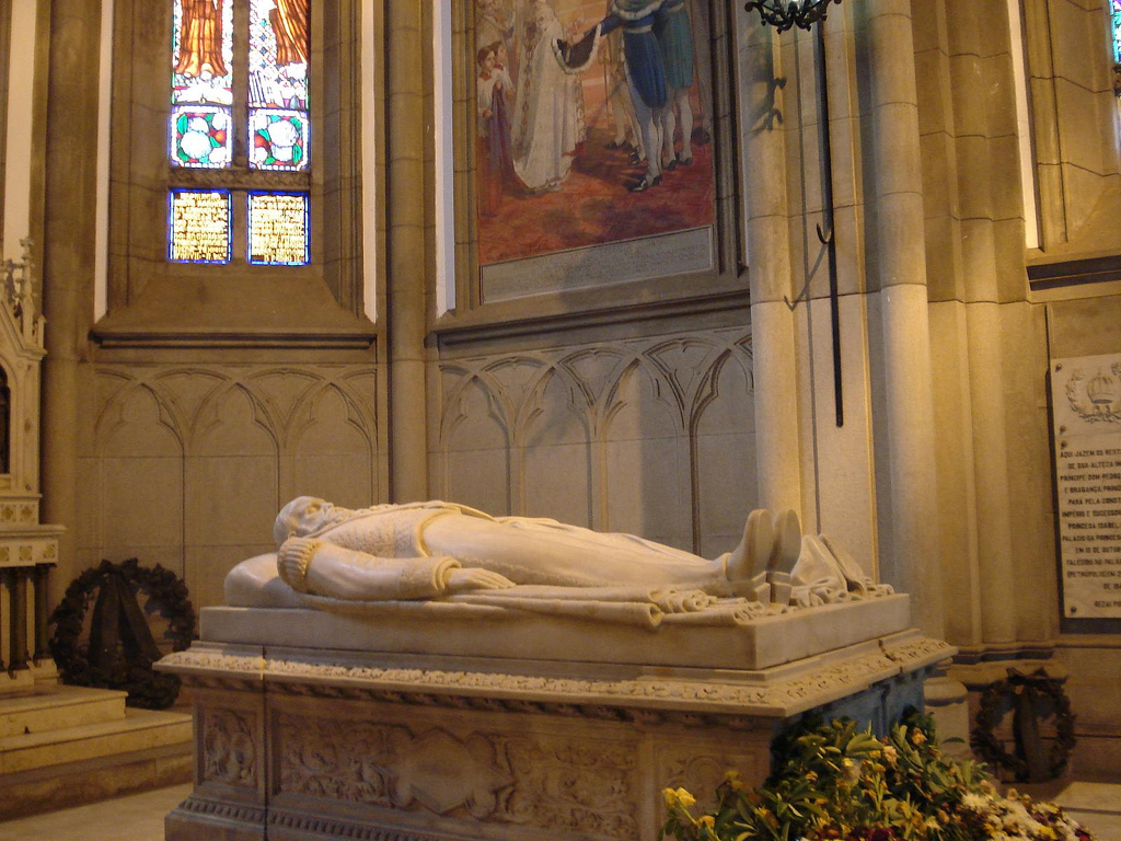 His body was temporarily housed in the Cathedral of Rio de Janeiro until construction on the Cathedral of Petrópolis was complete on 5 December 1939.